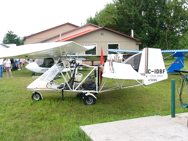 Mignet HM.1000 Balerit at the Hawkesbury, Ontario Fly-in on 14 August 2005.